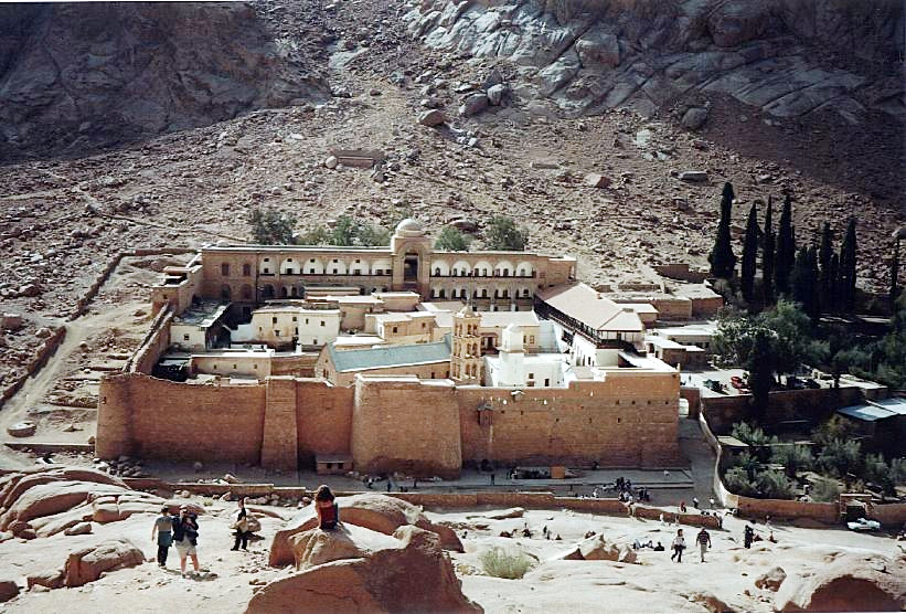 Saint Catherine's Monastery on the Sinai Peninsula in Egypt.